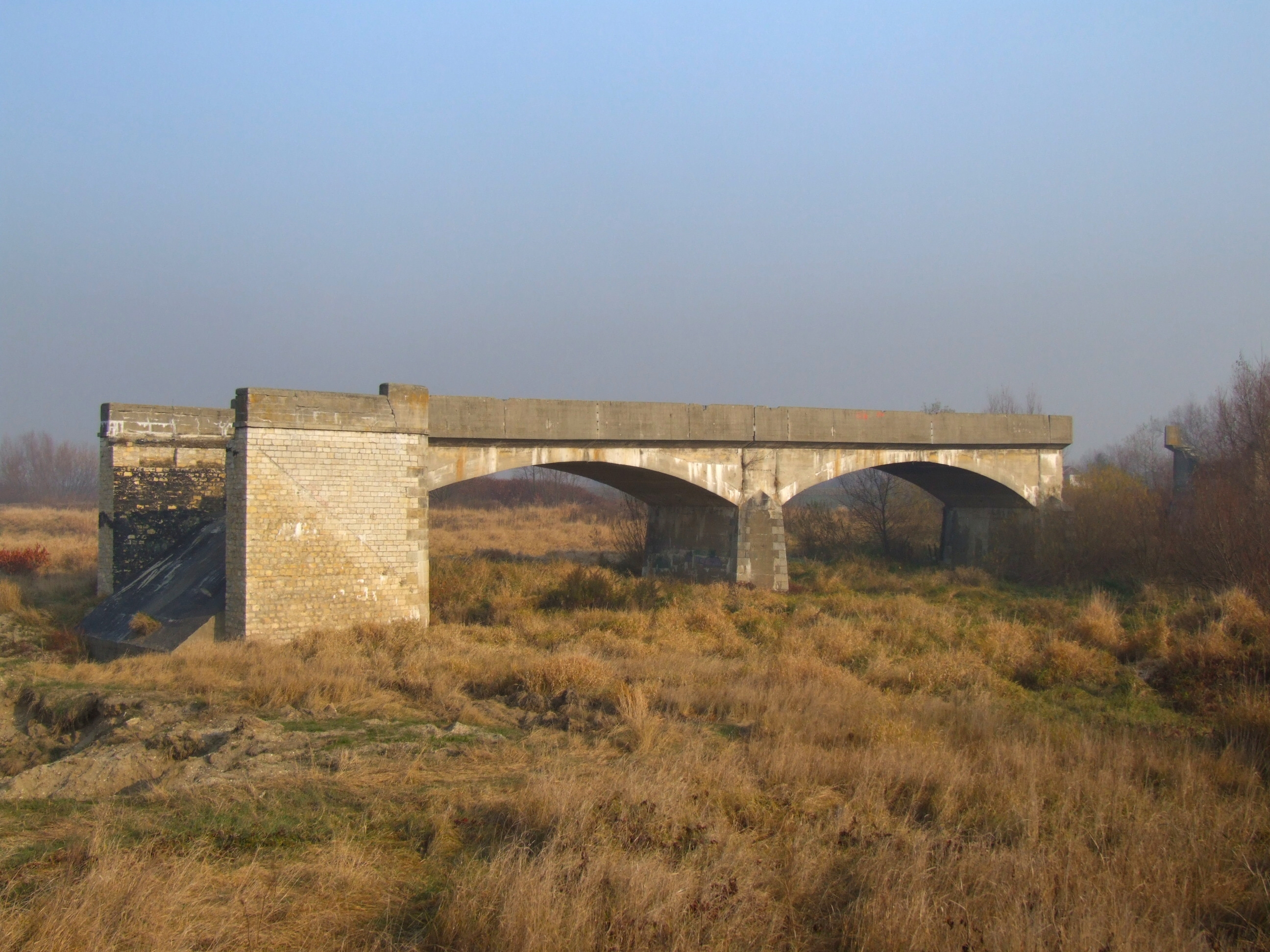 Destroyed bridge in Grzegorzowice (Gregorsdorf), Upper Silesia